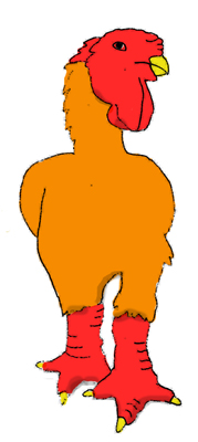 Dragon chicken or Gà Đông Tảo